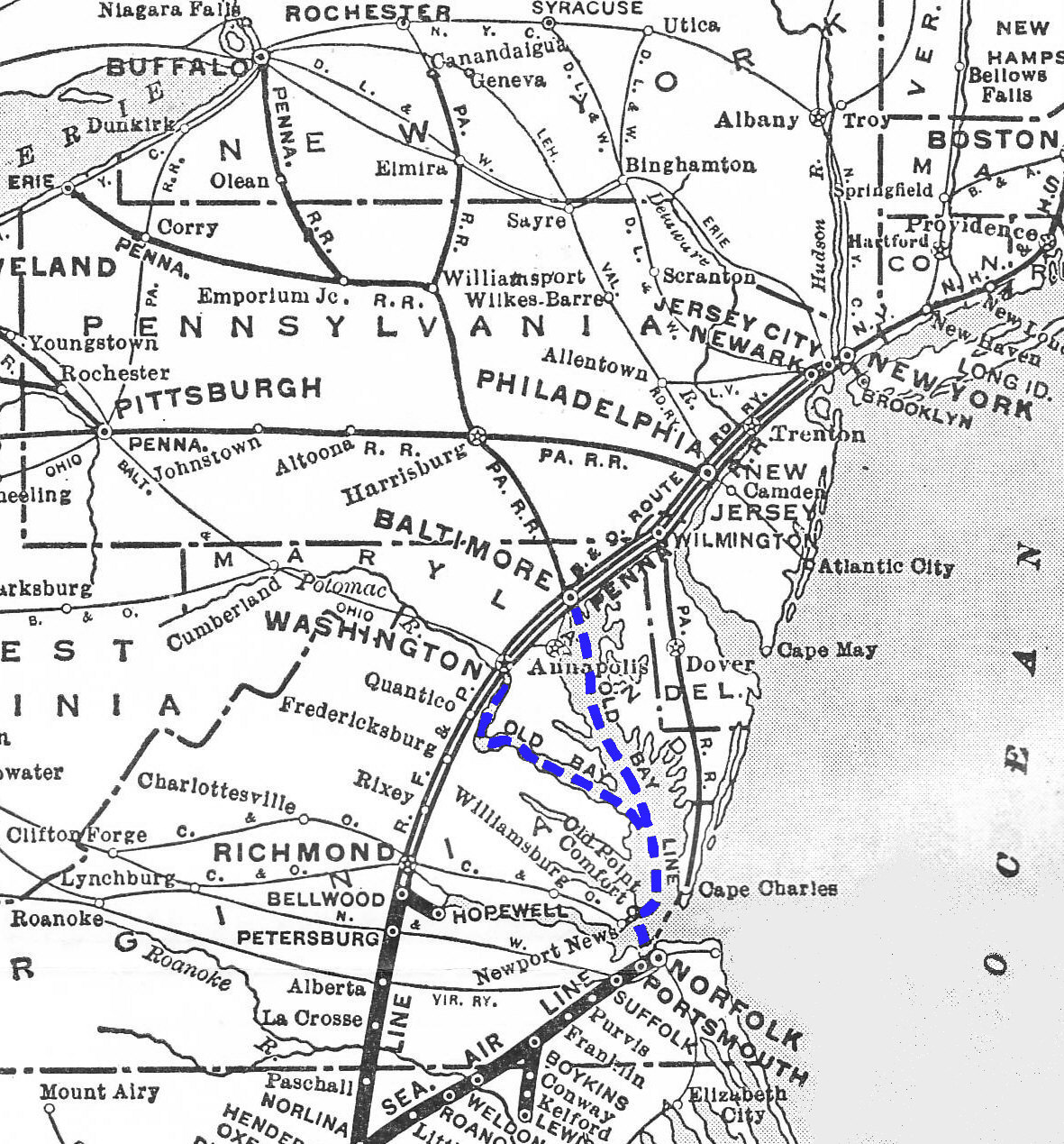 The Baltimore Steam Packet Company's route map, showing connections with owner Seaboard Air Line Railroad and other railroads